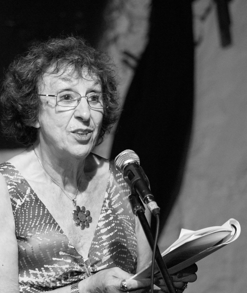 Elaine Feinstein reading at Shaar International Poetry Festival in Tel Aviv, October 2010. Photo credit Kaido Vainomaa.